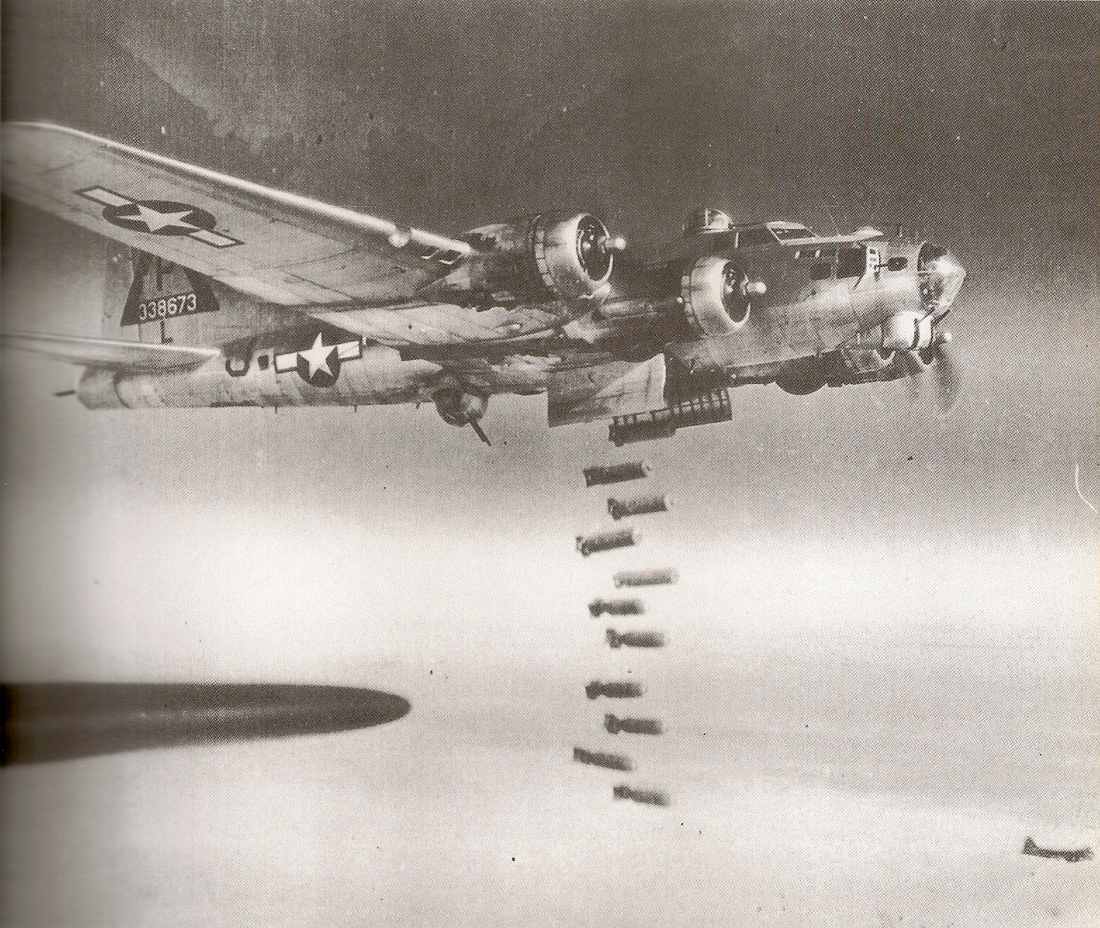 US Army Air Force Boeing B-17 bombing Nuremberg